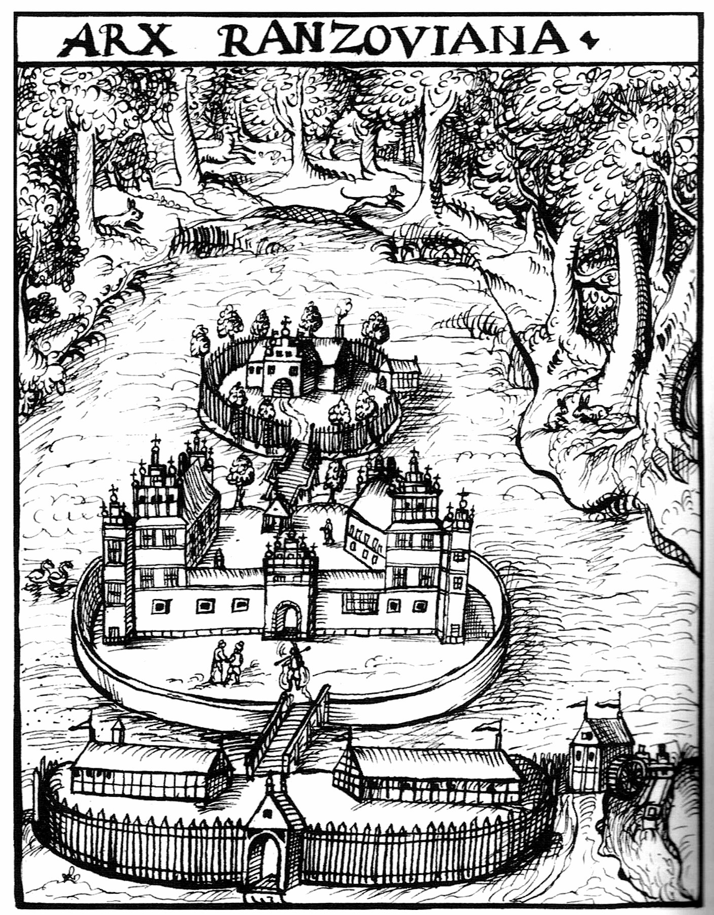 Rantzau Castle 1591